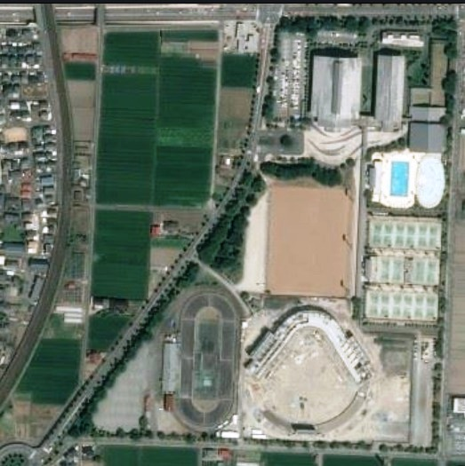 Yamagata City Sports Center